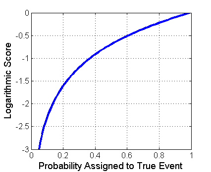 Value of the logarithmic score. Matlab code below.